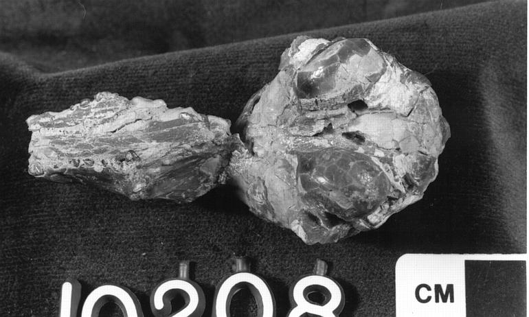 Cynarctoides lemur fossil, University of California Museum of Paleontology.